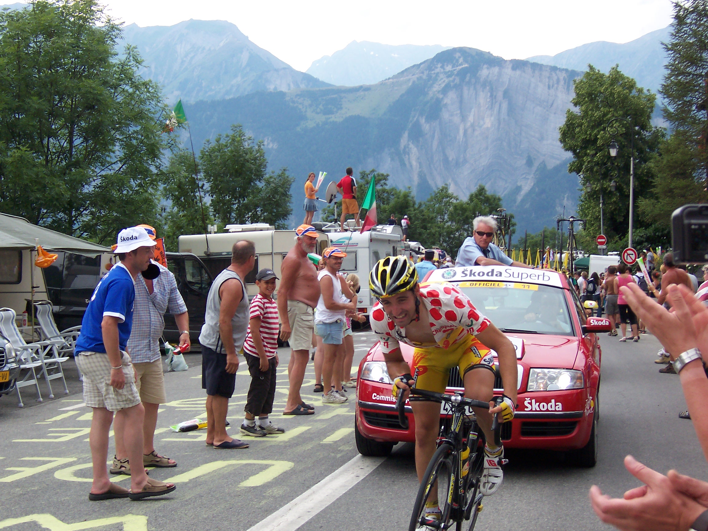 David de la Fuente op de Alpe d'Huez 2006